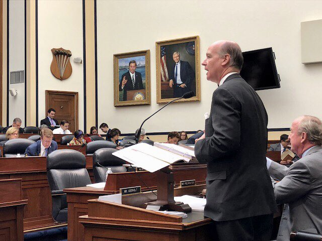 Today the @HouseAppropsGOP passed the annual funding bill for the @USDA, the @US_FDA, and other related agencies. I am proud to move the bill through the second step of the legislative process while continuing to make rural America great again. Next step is the House Floor.